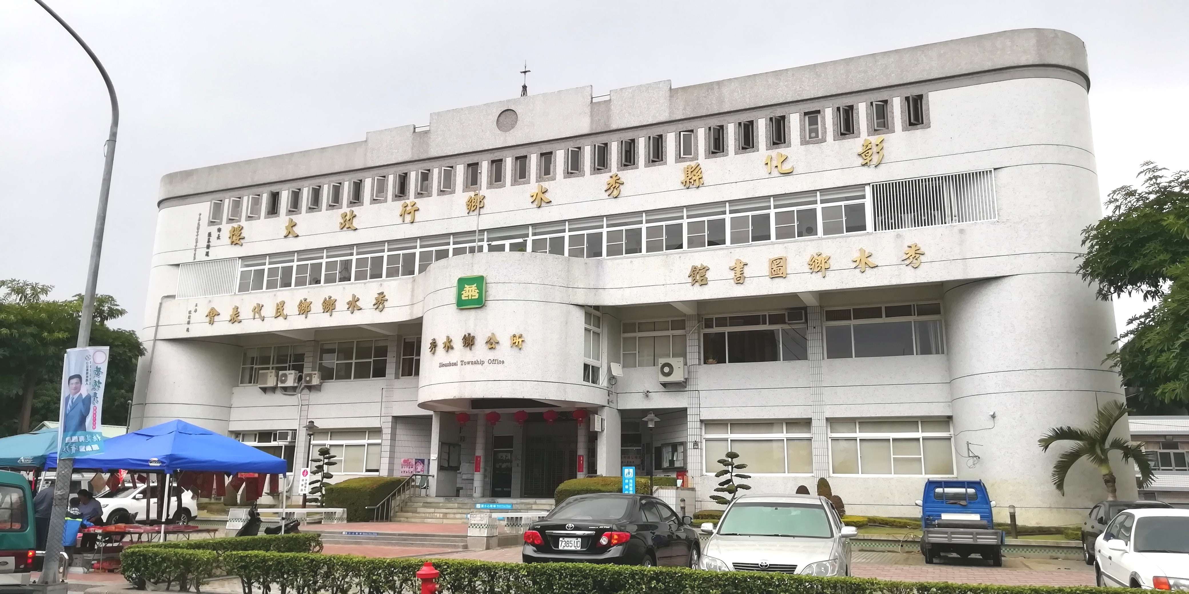 Xiushui Township Administration Building